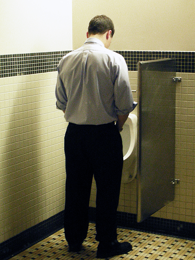 Title: "Meón" Man seen from back using urinal, Washington, D.C.